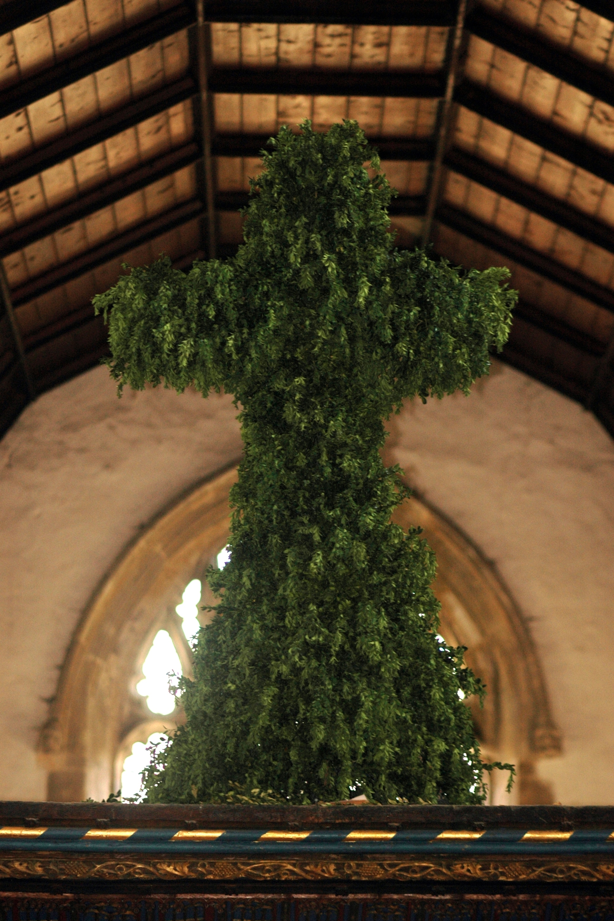 Garlanded rood in the Church of England parish church of St Mary the Virgin, Charlton-on-Otmoor, Oxfordshire.